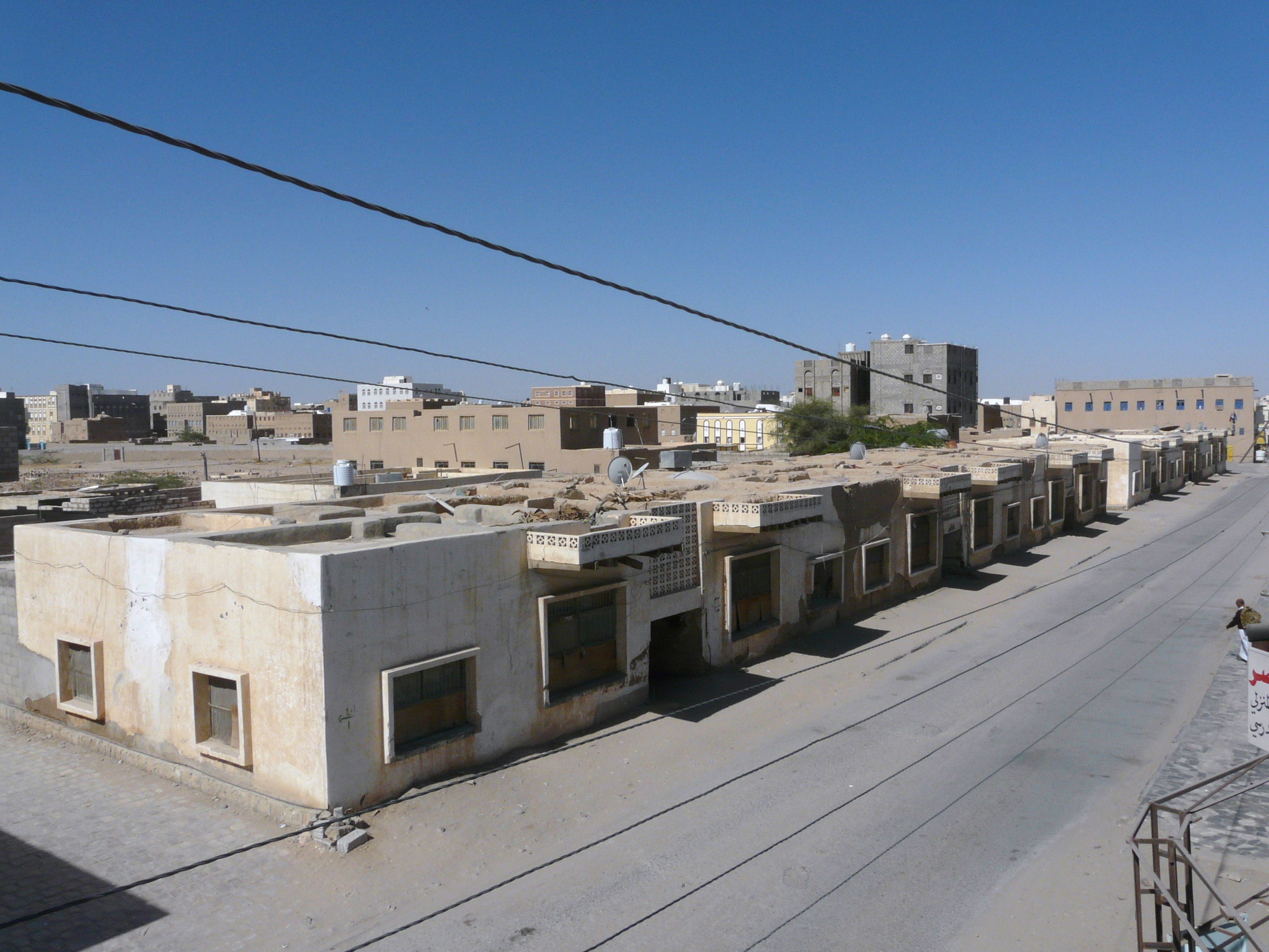 Old city of Ataq, South Yemen.